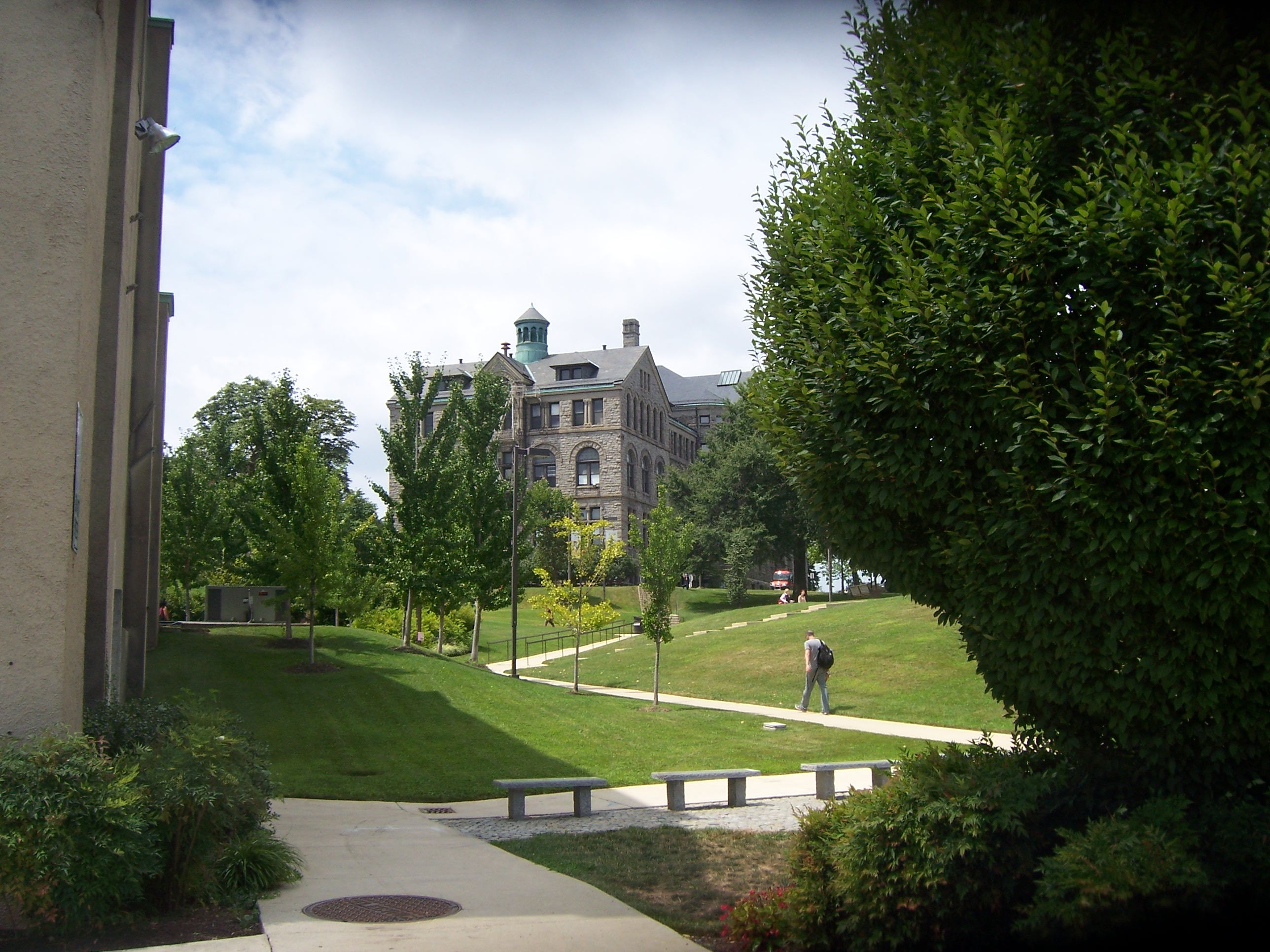 Footpath at the campus of the Catholic University of America (Washington, D.C.)